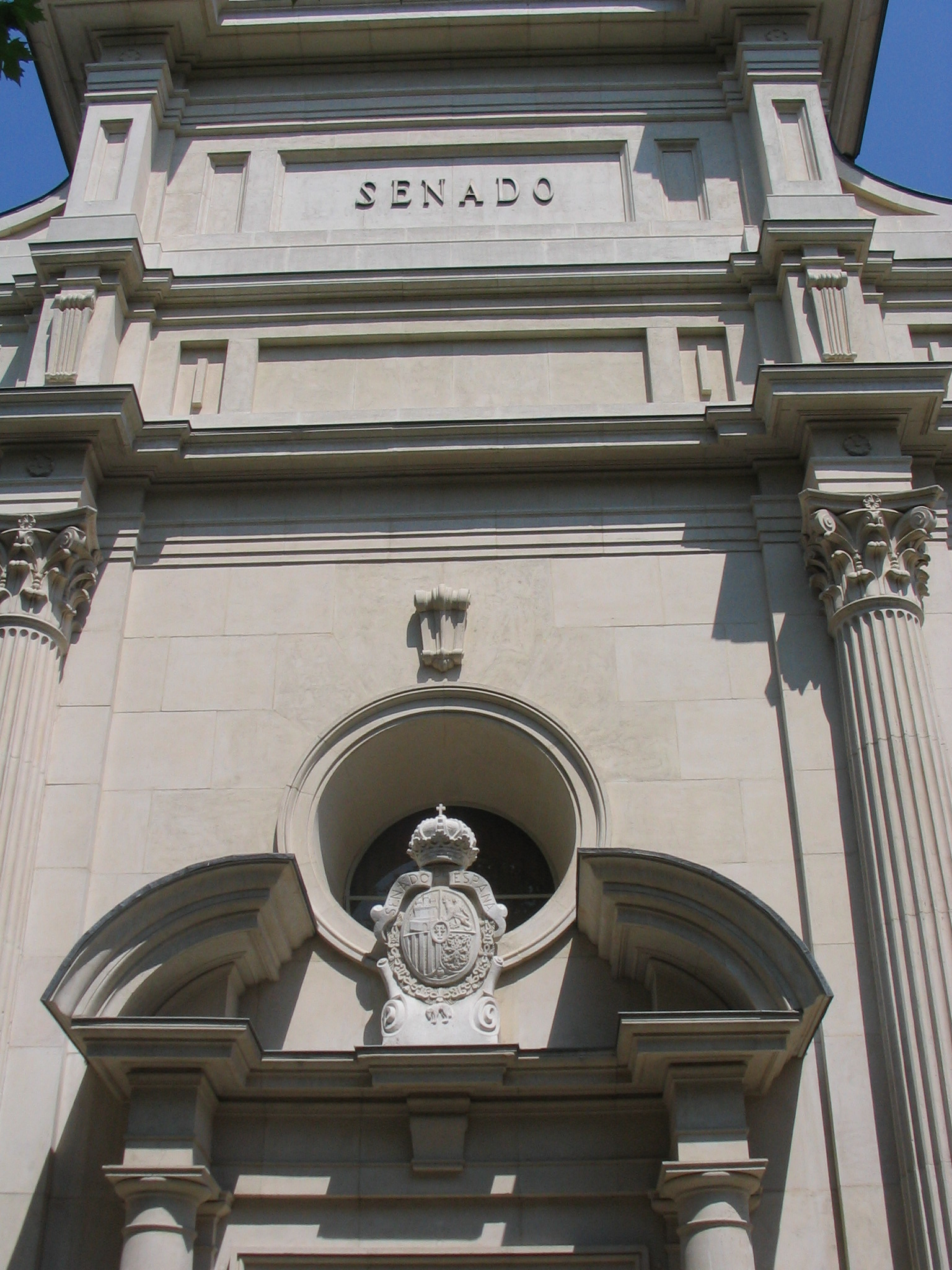 Picture made by me